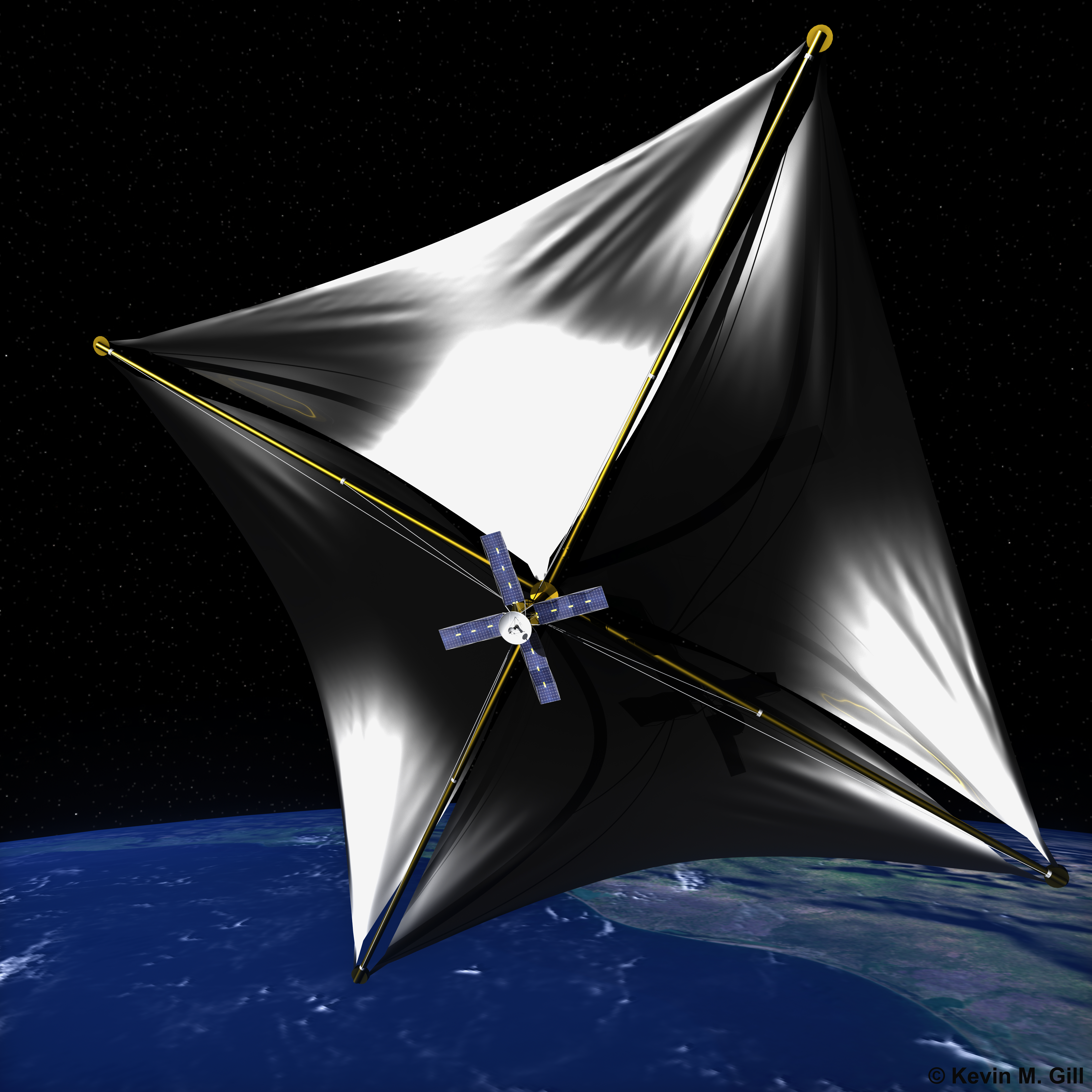 A Solar Sail begins its journey, accelerated (slowly) by the solar winds... Rendered using Autodesk Maya with Photoshop postprocessing.